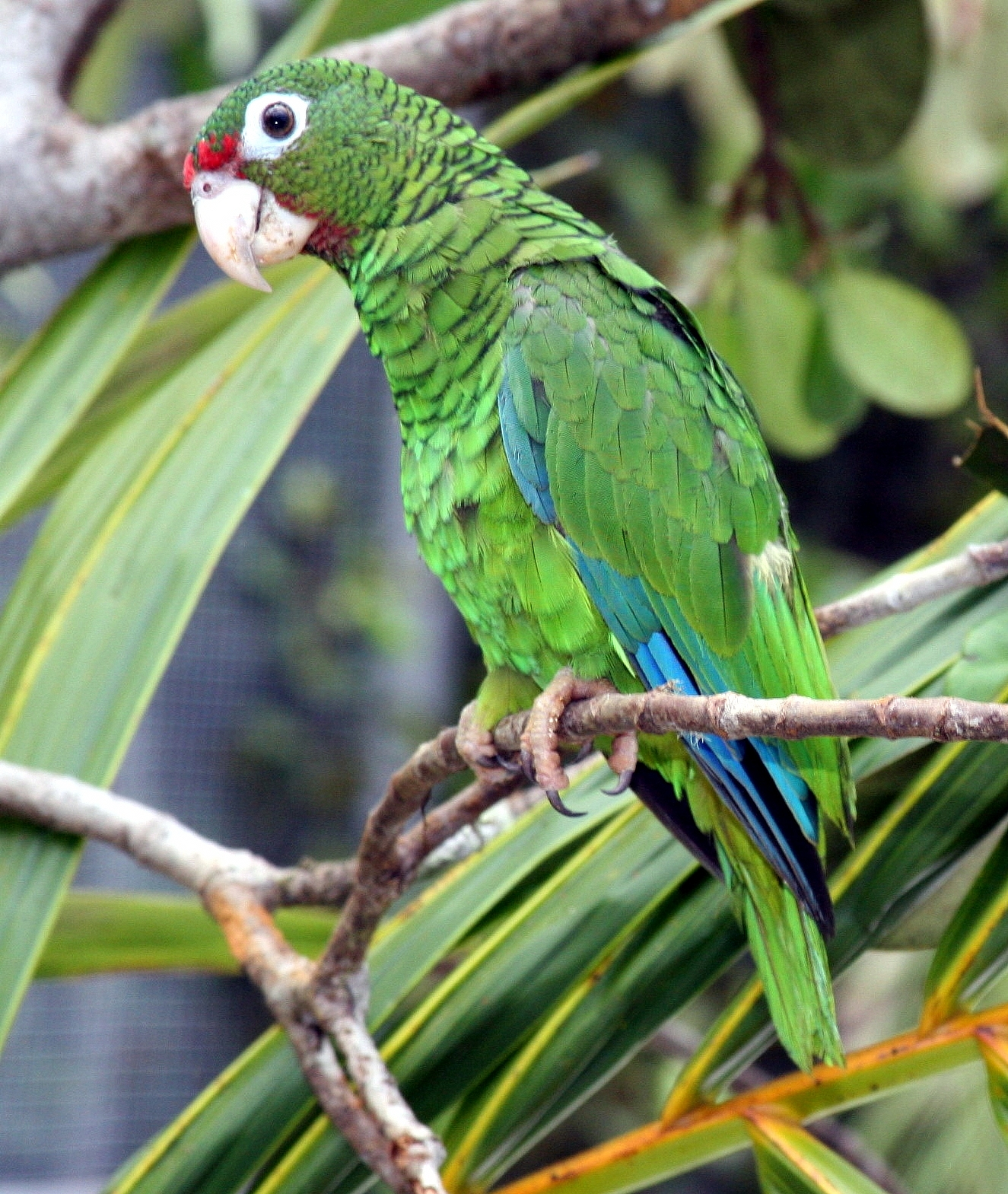 Endangered Puerto Rican parrot ceremonially released at the flight cage of the flight cages at the Iguaca Aviary